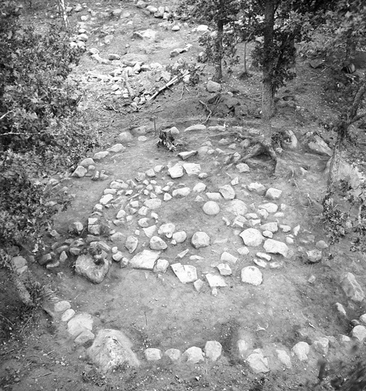 Ålsta gård, Järfälla kommun, utgrävning. Bild nr 20168. Järvafältets fornlämningar. Fotograf: ATA, Nr A3:208.